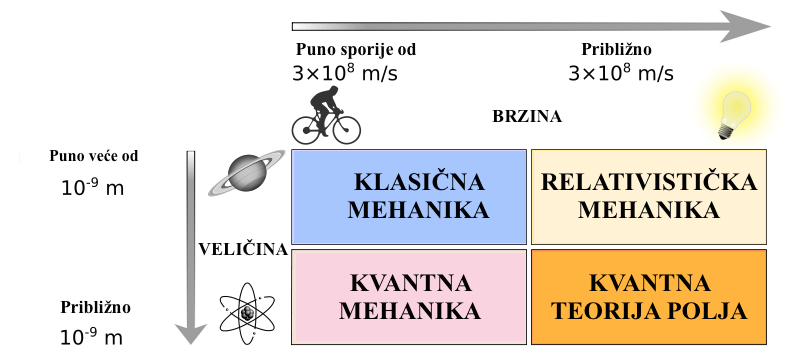 Original Modernphysicsfields.svg by YassineMrabet A simplified view on fields of modern physics theories. Please note that from a historical point of view, this diagram is very simplified. In fact, when quantum mechanics was originally formulated, it was applied to models whose correspondence limit was non-relativistic. Many attempts were made to merge quantum mechanics with special relativity with a covariant equation such as the Dirac equation. These days, relativistic quantum mechanics is now abandoned in favour of the quantum theory of fields.